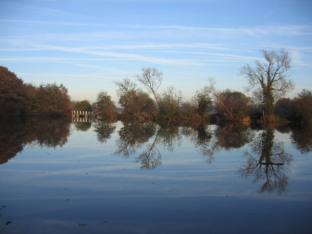 Earlswood Lakes - Terry's Pool. Earlswood Lakes were built to provide water for the Stratford-upon-Avon Canal. They are divided into three sections and this picture, taken on a still November afternoon is looking ENE across Terry's pool towards the causeway dividing it from Engine Pool.